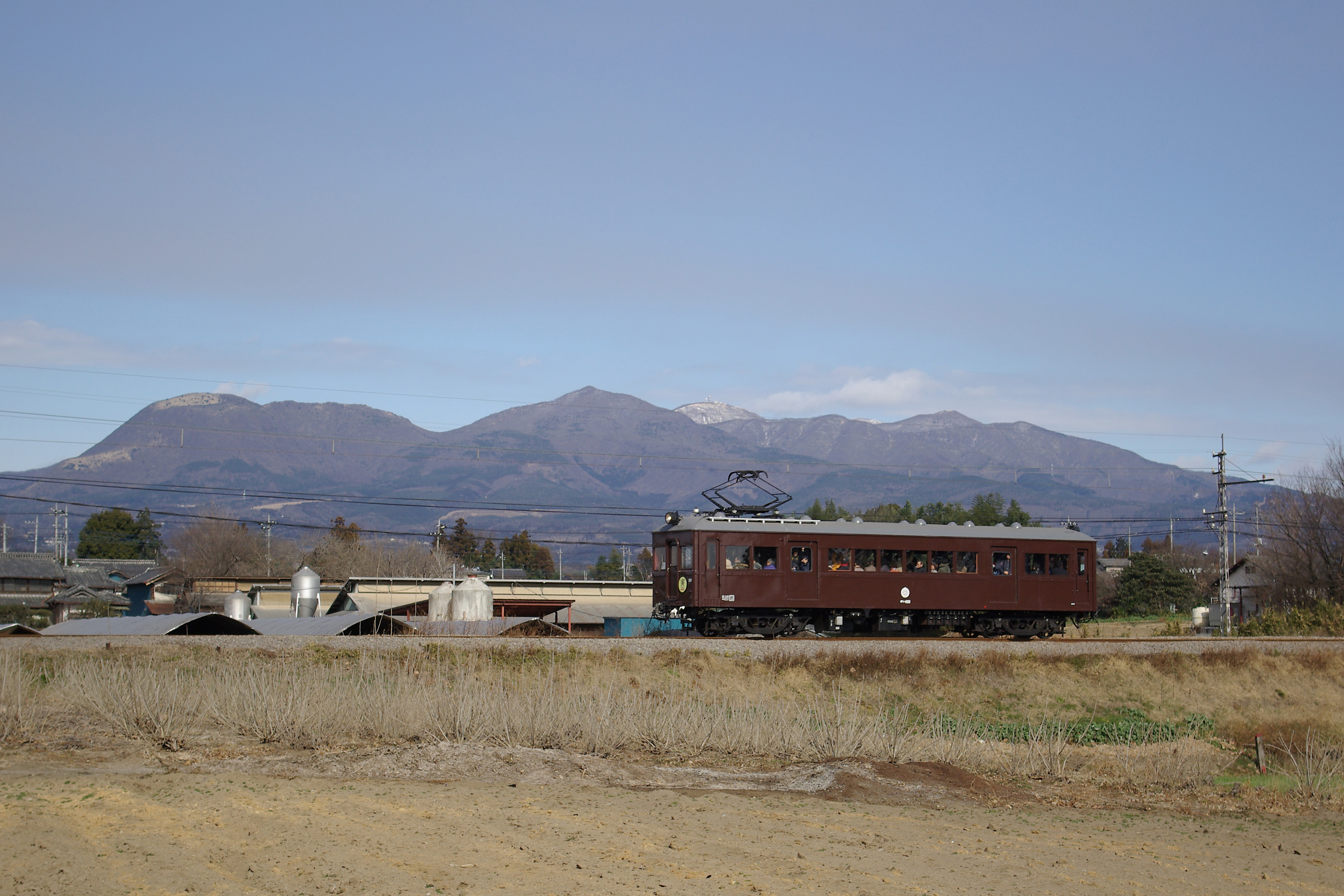 Jomo Electric Railway EMU car DeHa 101 between Egi and Ogo stations